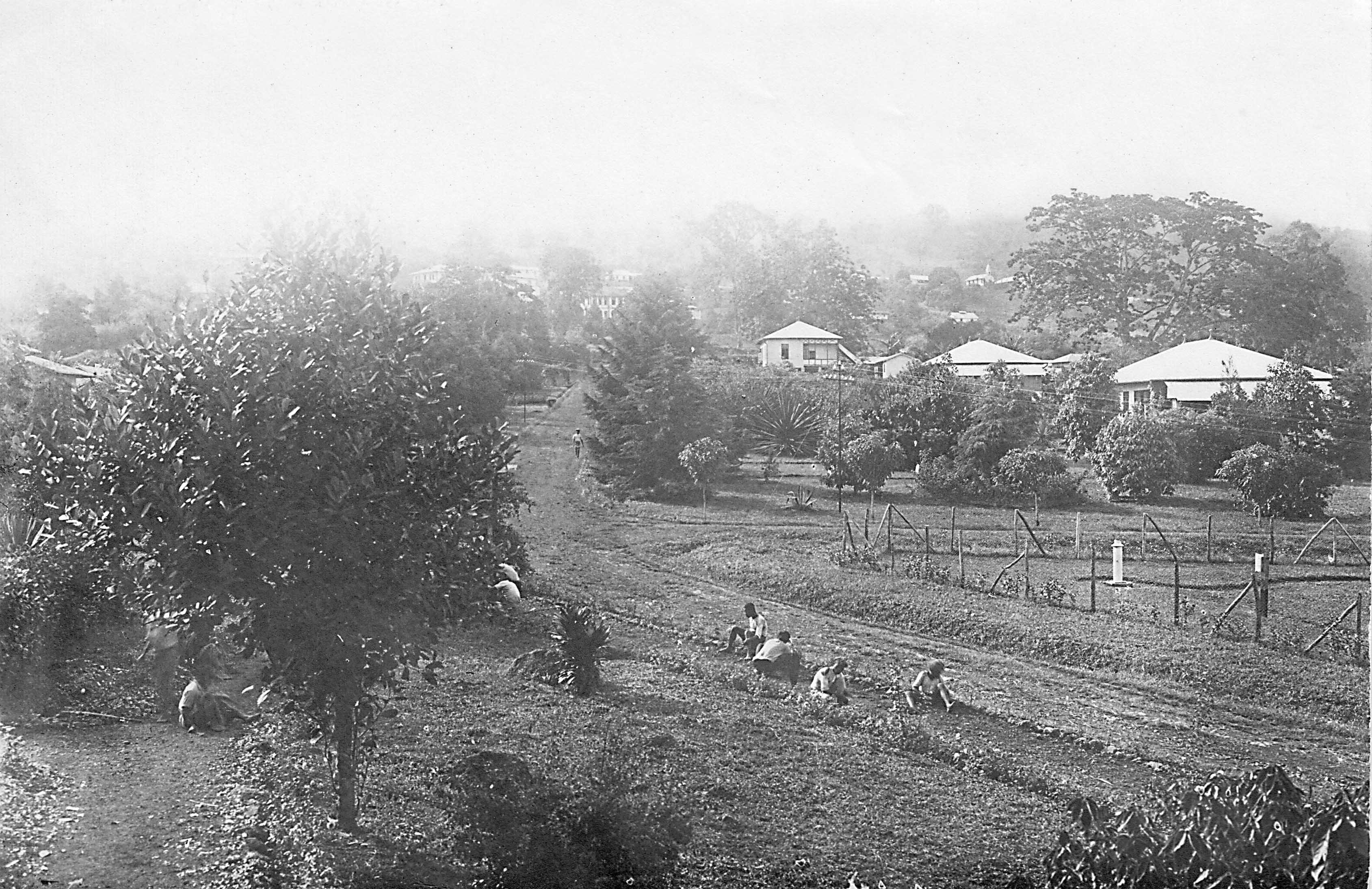 Buea, Cameroon